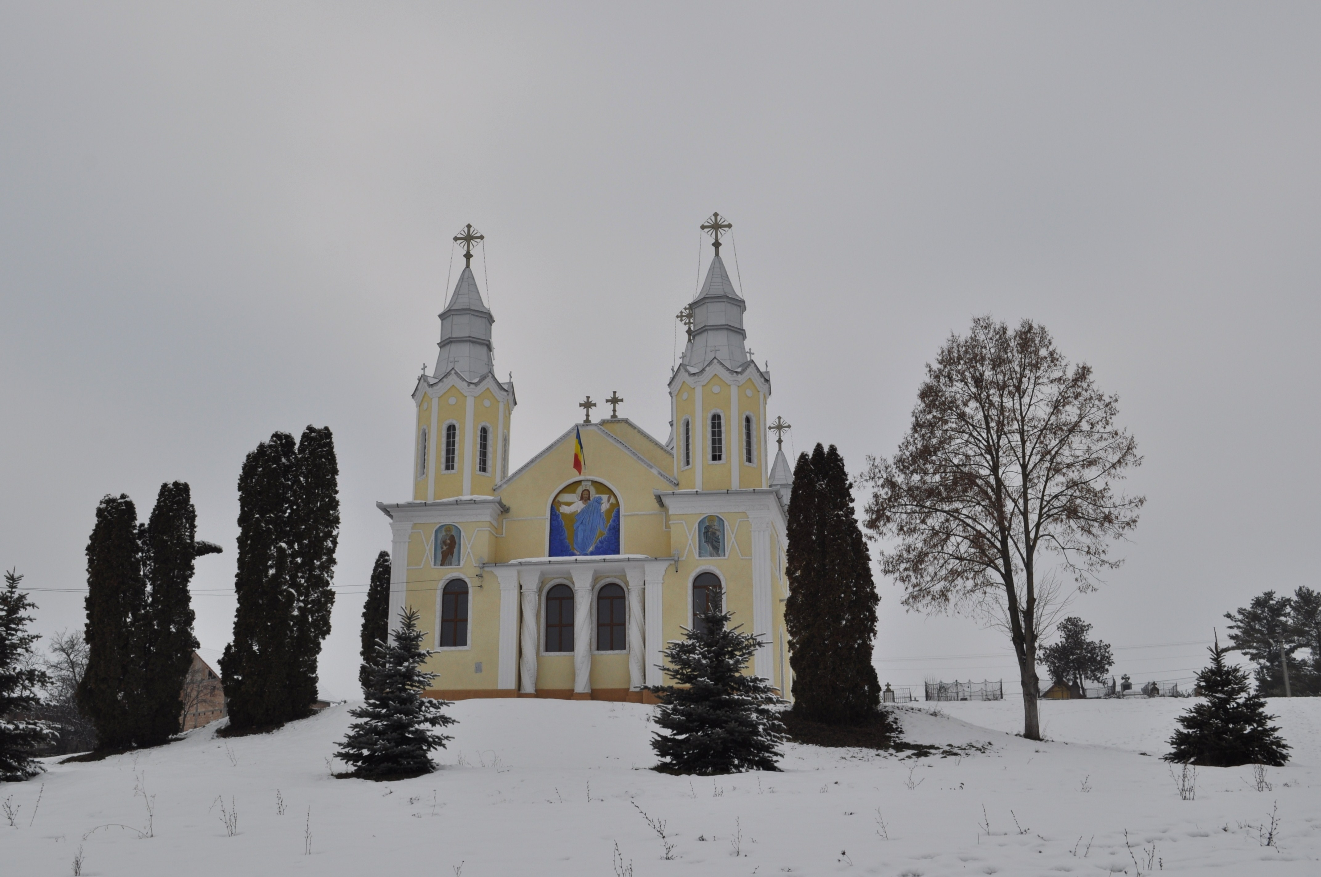 Luna, Cluj county, Romania